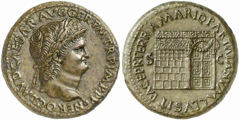 Nero. 54-68 AD. Sestertius (Orichalcum, 25.32 g 7), Lugdunum, 65. NERO CLAVD CAESAR AVG GER P M TR P IMP P P Laureate head of Nero to right with globe at the point of the bust. PACE P R TERRA MARIQ PARTA IANVM CLVSIT S C Temple of Janus with ornate roof decoration, latticed window on the left and with a garland hung across the closed double doors to the right. BNC 319. BN 73. Cohen 146. RIC 438. WCN 419. A fine and clear example with a smooth brown patina, a good portrait and a detailed view of the temple of Janus. Extremely fine. From the Patrick H. C. Tan Collection.